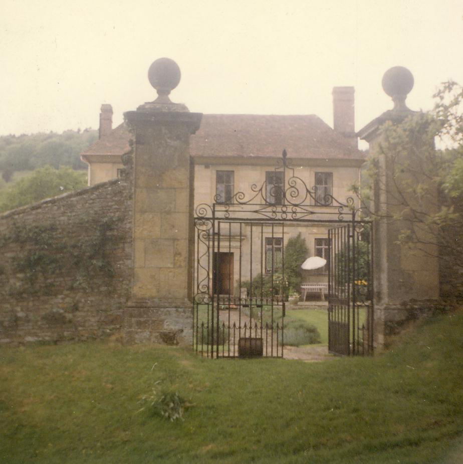 Upper Roundhurst Farm, West Sussex